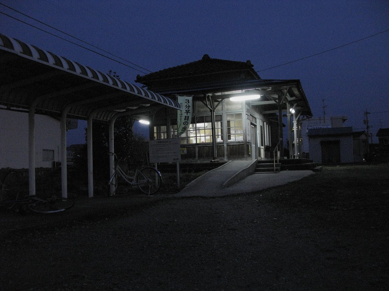 Kamihori Station on Toyama Chiho Railway Kamidaki Line